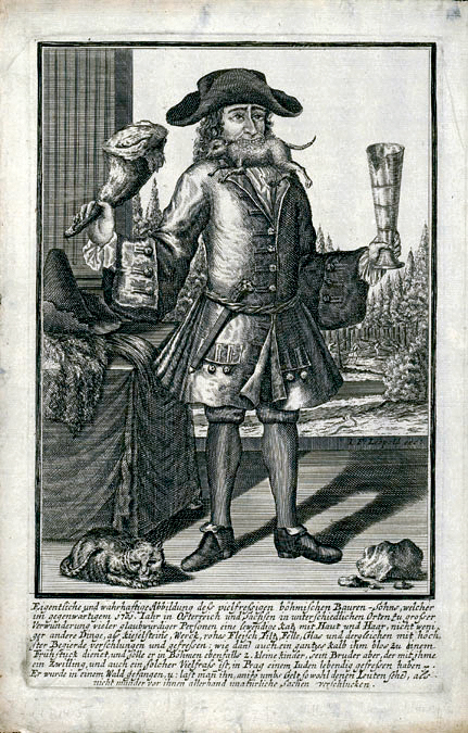 Full length figure of man gripping whole live lamb in his mouth, holding out a huge leg of lamb in his right hand and a drinking vessel with a bite taken out of it in his left, a cat sits at his feet; engraved German text states, among other things, that at home in Bohemia he ate two children and his twin brother in Prague supposedly ate a Jew alive; apparently part of a traveling circus; "I.F. Leopold exc.". Print 33.1 x 21.7 cm.